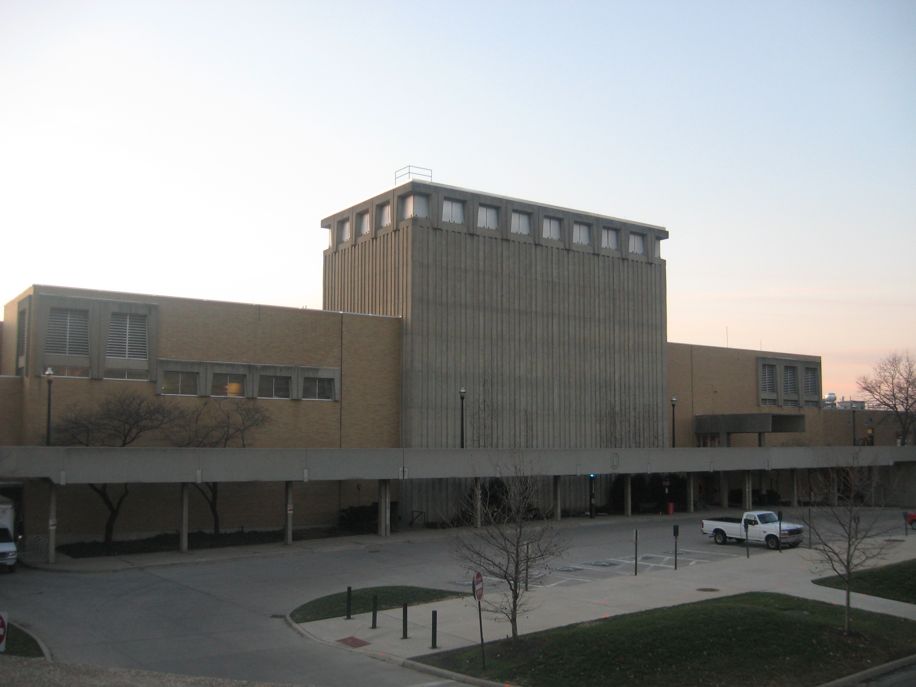 A picture of Drake Union at Ohio State University